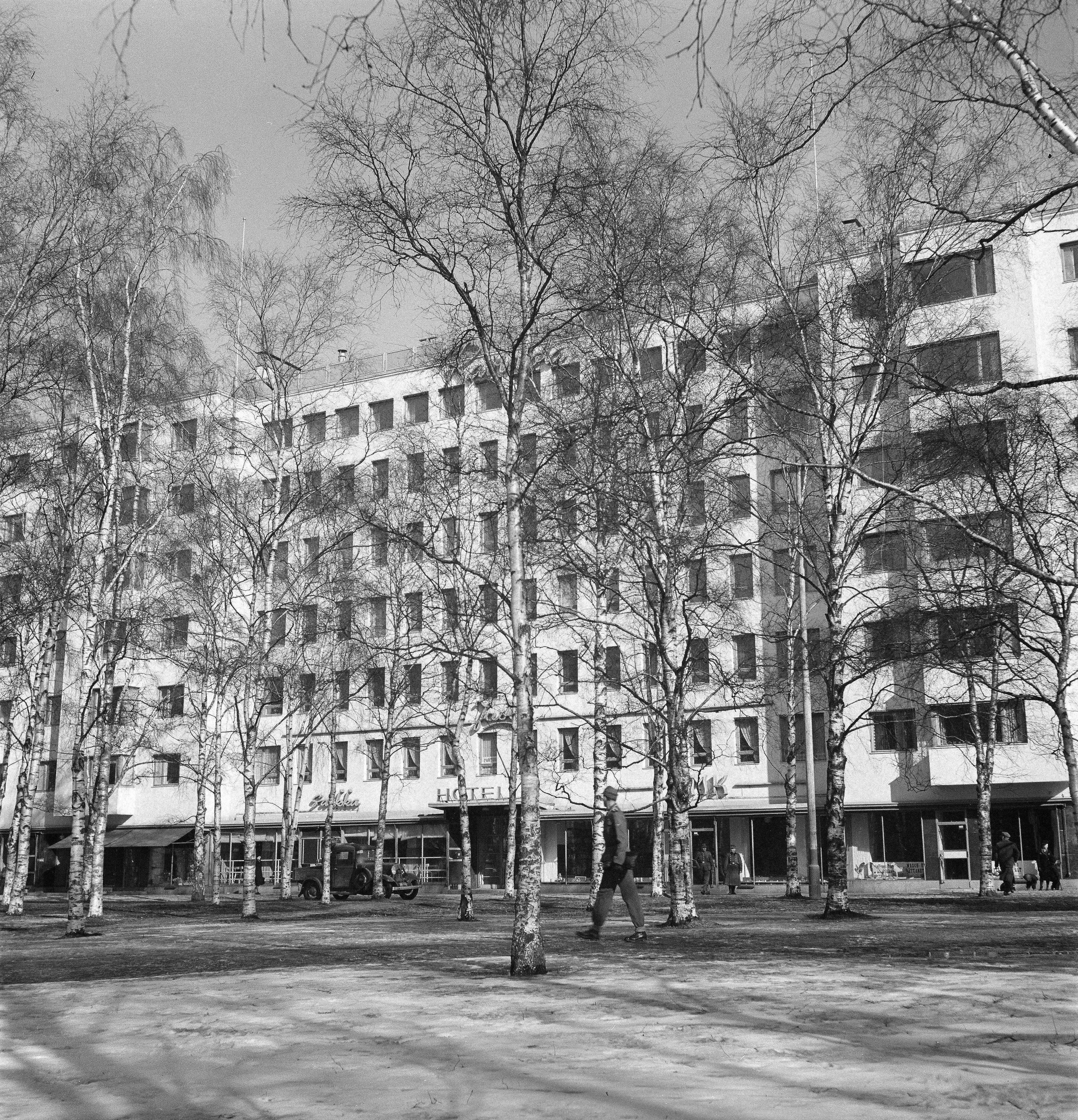 Hotel Tervahovi in the Valkea Linna building and the Palokunnanpuisto park (named Otto Karhi Park in 1956) in Oulu.